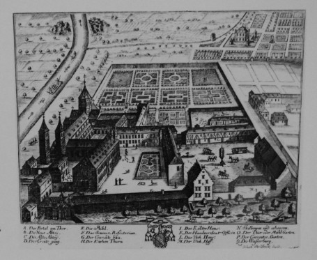 Kloster Seligenstadt 1710